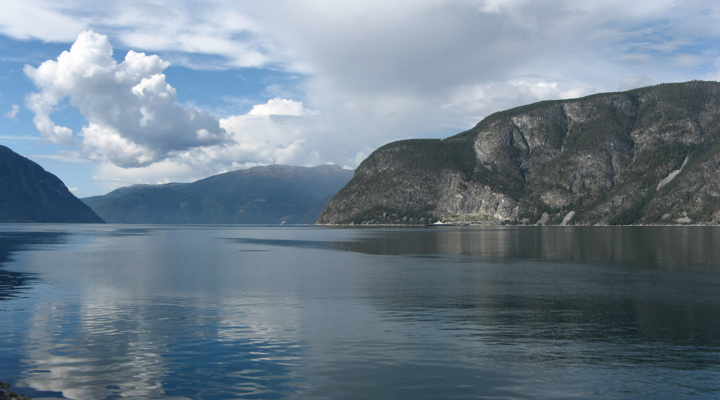 Sognefjord, Norway.